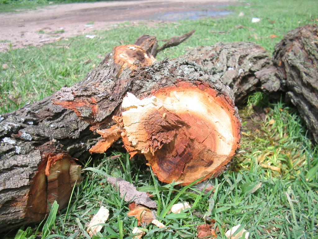 Acacia schaffneri wood